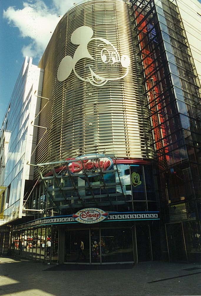 Former Disney Store (closed at the end of the year 1999) in the Nobel-Haus at the Zeil in Frankfurt am Main, Hesse, Germany. The Zeil is the city's main shopping street.